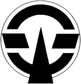 Hirao Yamaguchi chapter